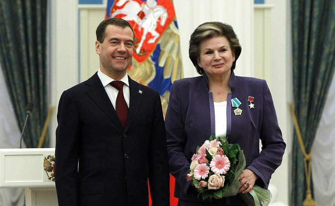 Member of the first squad of cosmonauts Valentina Tereshkova was awarded the Order of Friendship.